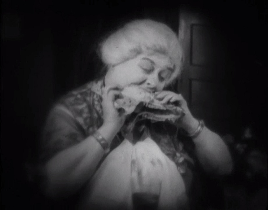 Scenography for the movie Greed (1924); Sylvia Ashton.